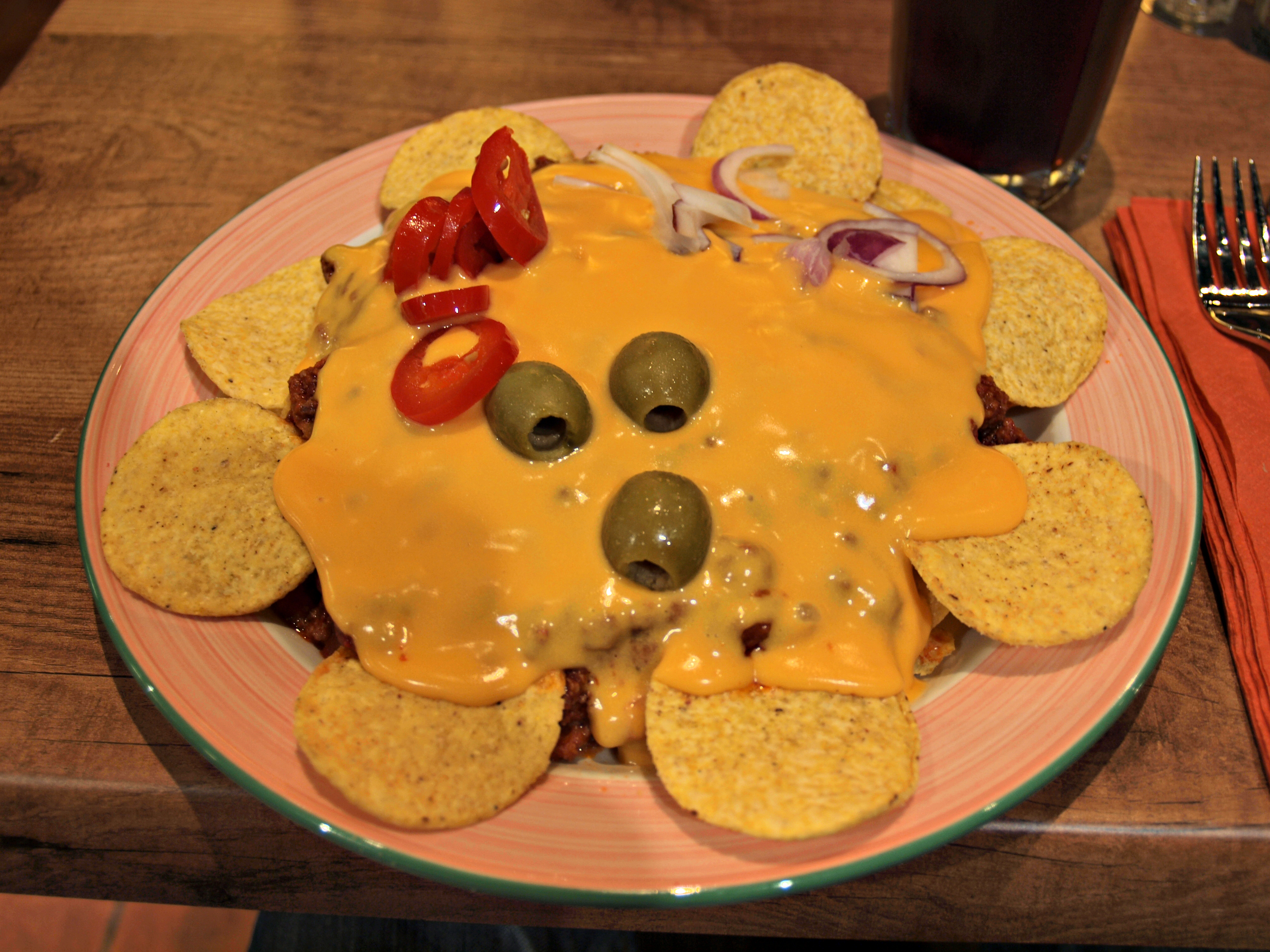 A plate of nachos supreme: Nachos, spicy minced beef, cheddar cheese sauce, jalapeños, olives and onions, and a glass of Coca-Cola. Served at a Tex-Mex restaurant in Kamppi, Helsinki, Finland.